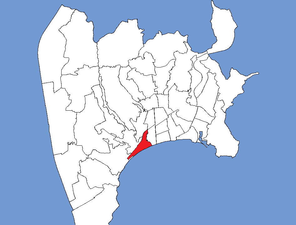 Location of the neighbourhood Baumettes in Nice